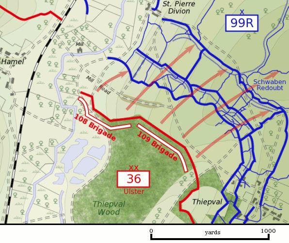 Map showing British attack in the vicinity of the Schwaben Redoubt on 1 July 1916. This is a clip from the larger map of the Ancre sector File:Ancre sector 1 July 1916.png by Gsl.